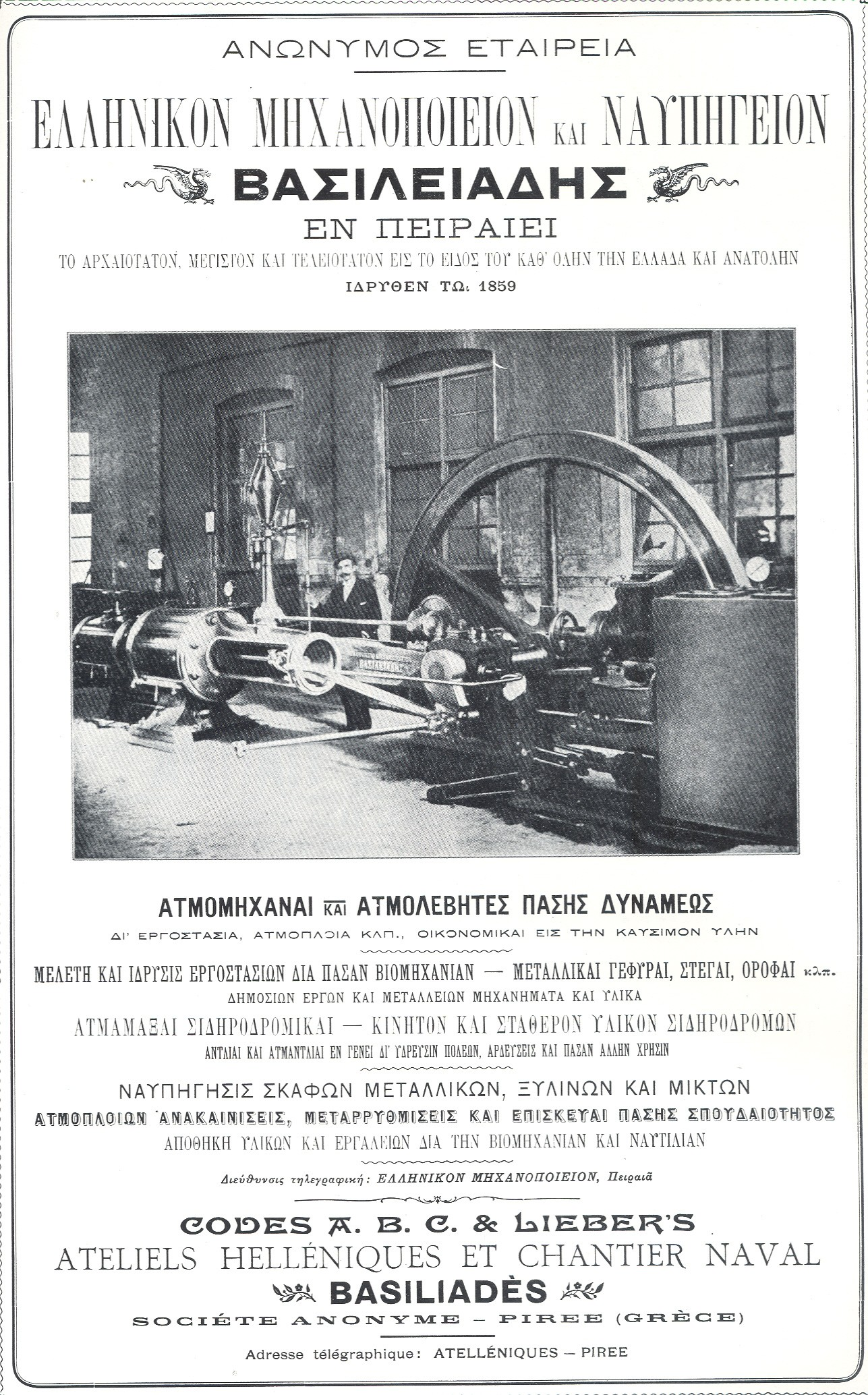 An early 1900s advertisement poster for Vassiliadis (Basileiades) Company